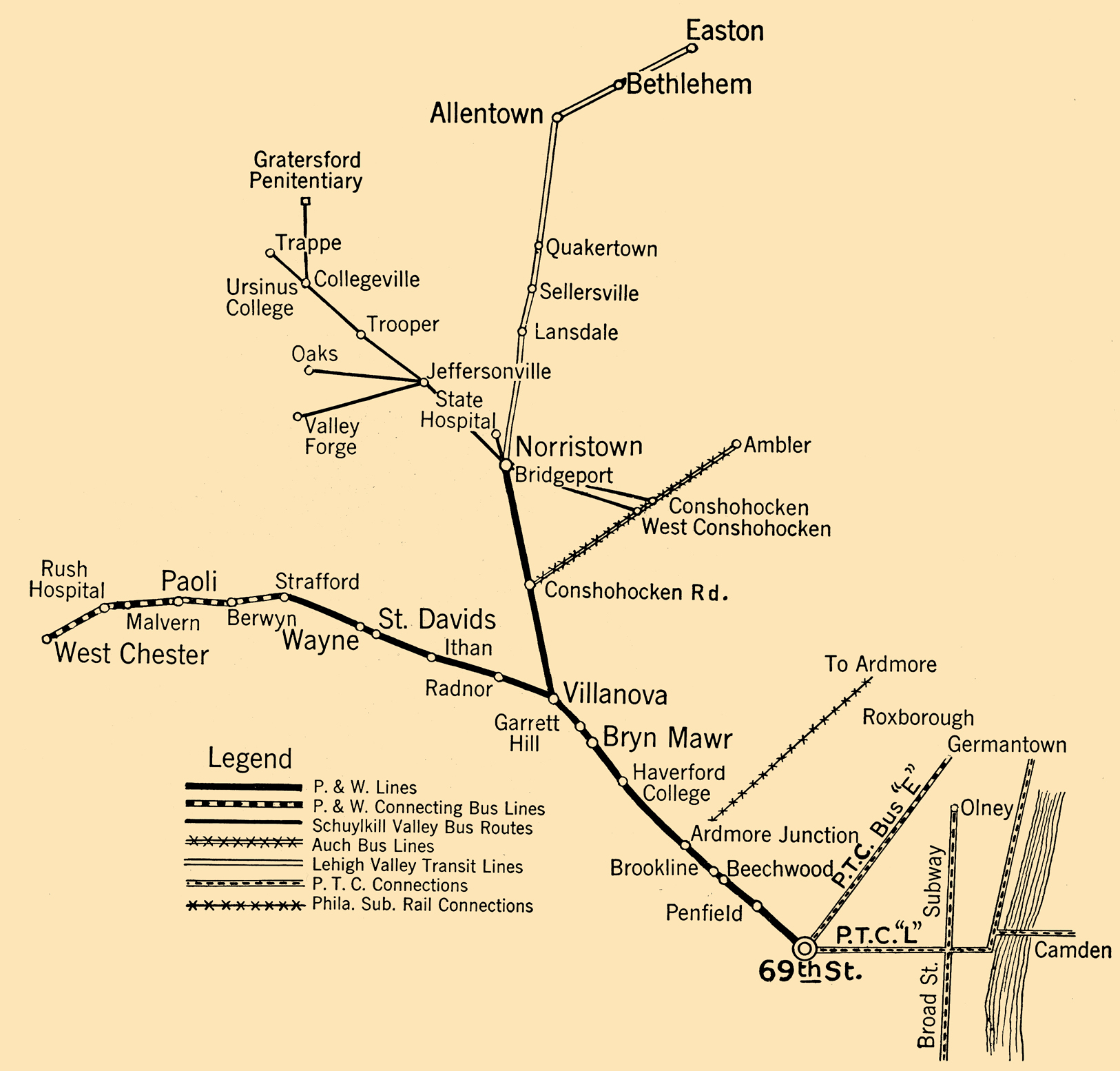 Map of the Philadelphia & Western Railway and connecting lines. August, 1941